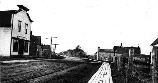 A street in Shippagan, New Brunswick, in 1900.